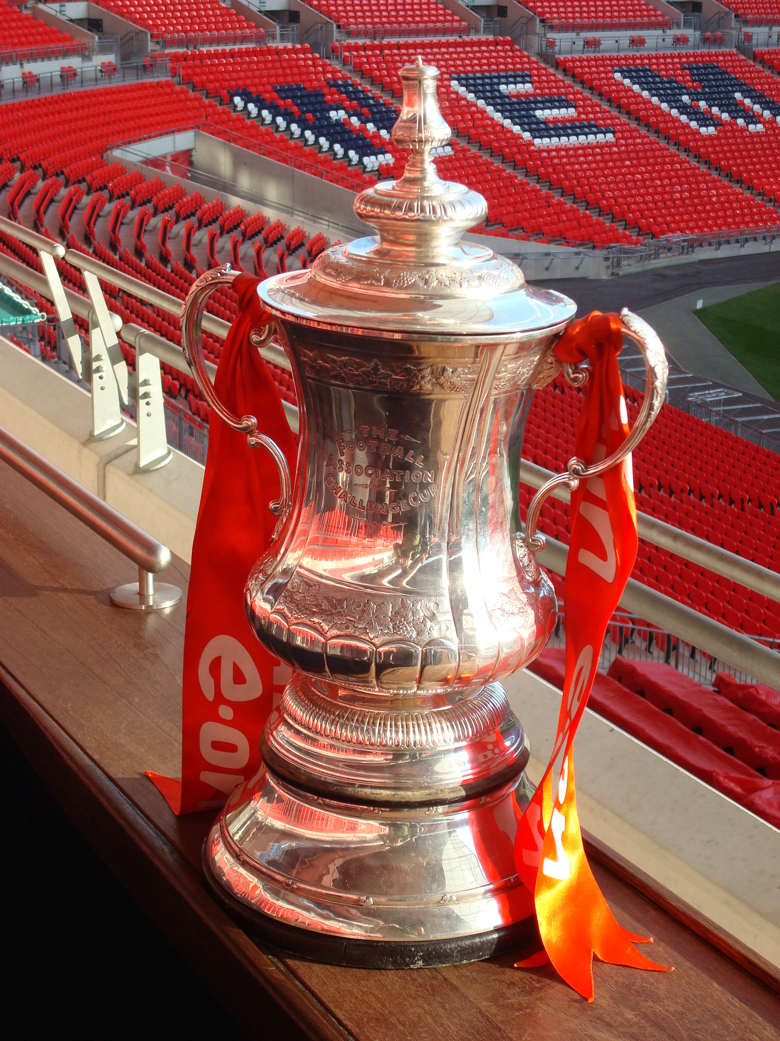 The FA Cup Trophy at Wembley Stadium